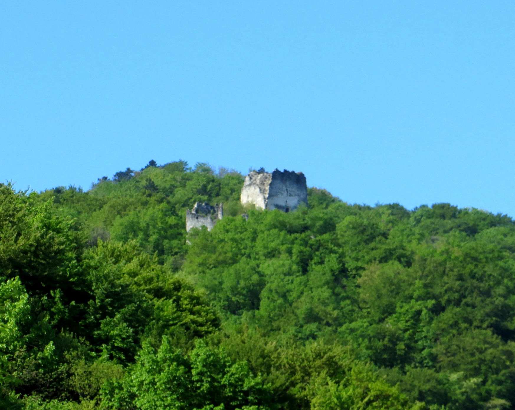 Ruins of Kunšperk Castle in Kunšperk, Municipality of Bistrica ob Sotli, Slovenia